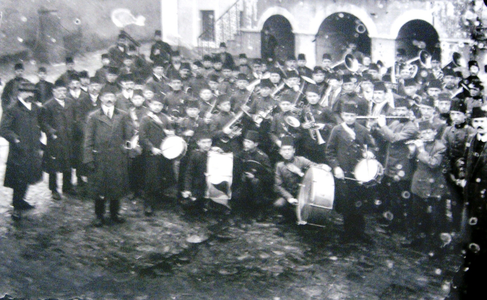 Student Orchestra of the Romanian high school in Bitola. (Bitola, 1905) This media file is produced by Wikipedian in Residence in Category:Wikipedian in Residence at DARM in 2016.